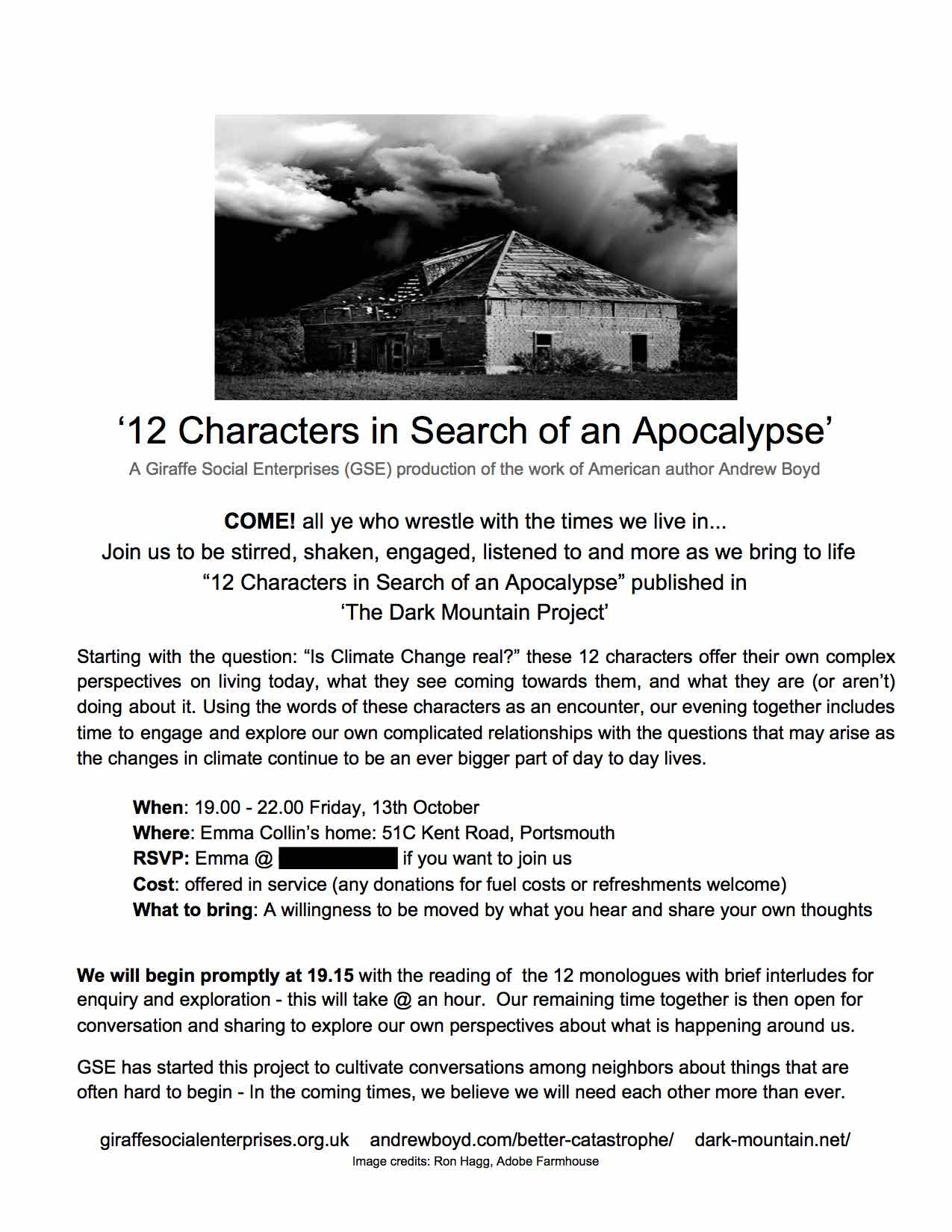 The original flyer for the initial public 12 Characters event